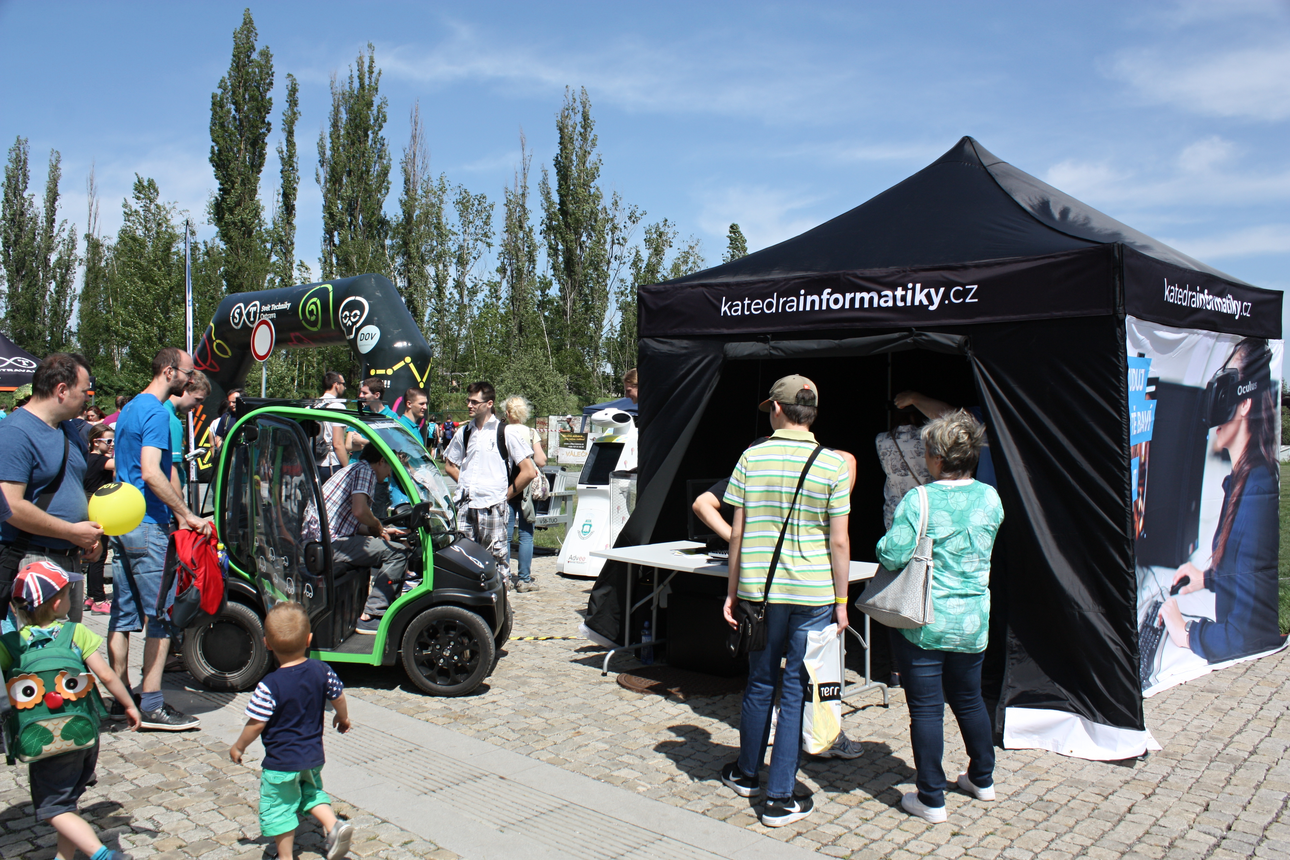 Open day in Dolní oblast Vítkovice 2018, Ostrava-Vítkovice, Ostrava District, Moravian-Silesian Region, Czech Republic